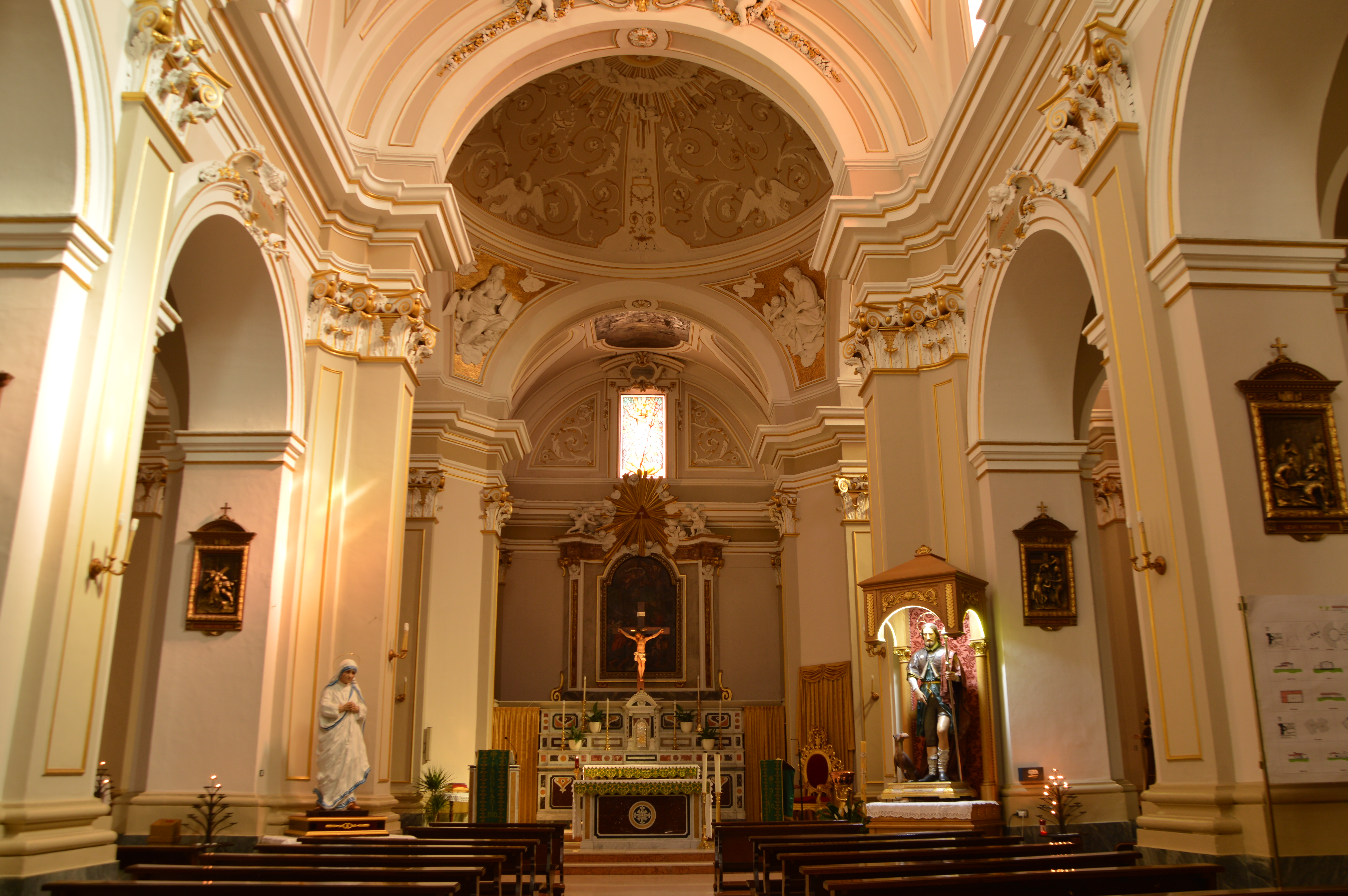 Interno